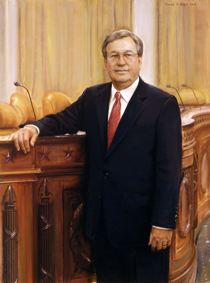 Official Portrait of Rep. Bill Thomas